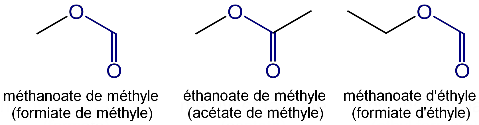 Illustrative schematic of IUPAC nomenclature of carboxylate esters.